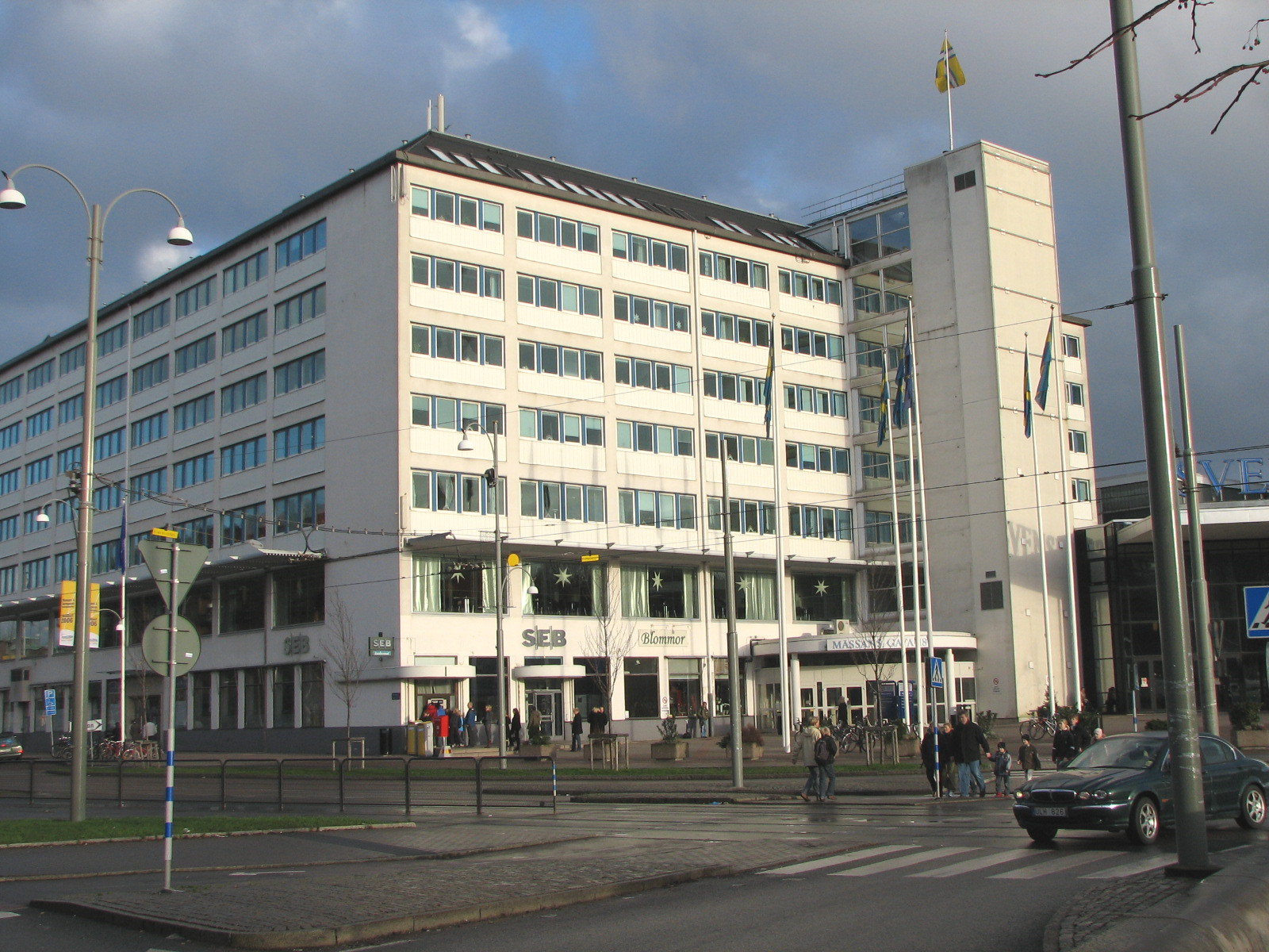 The World Trade Center building in Goteborg.